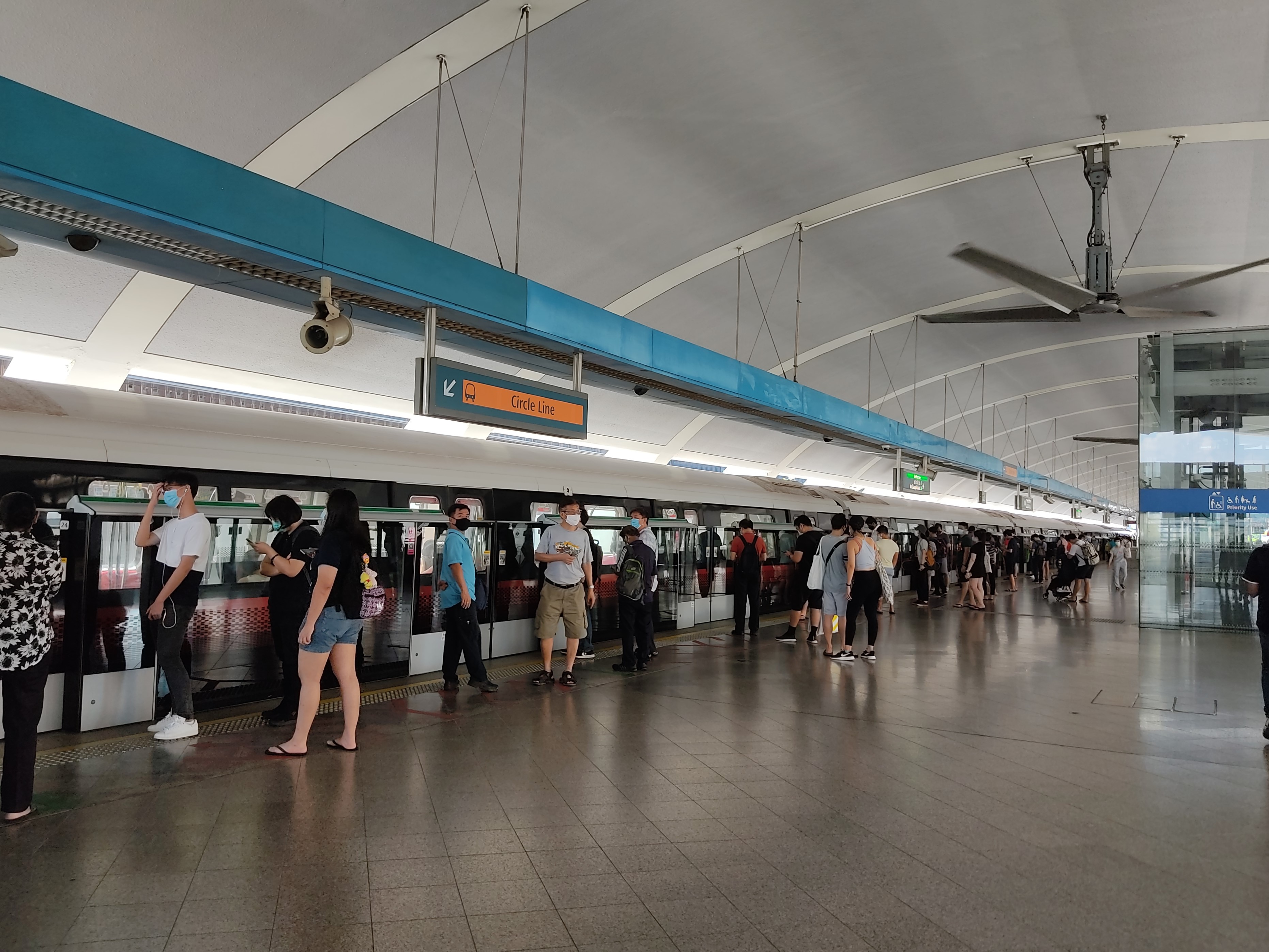 EW8 CC9 Paya Lebar EWL